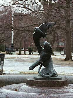 Black panther and owl sculpture 33" tall set on a granite fountain base. The Bagheera Fountain is located in the east part of the Boston Public Garden in Boston, MA.